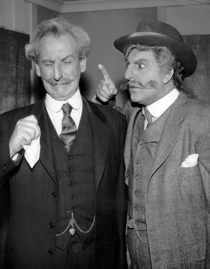 Publicity photo of Hans Conried and Danny Thomas from The Danny Thomas Show, 1964. In this episode, Uncle Tonoose (Conried) gets a lecture from his older brother, Tufix (played by Thomas).